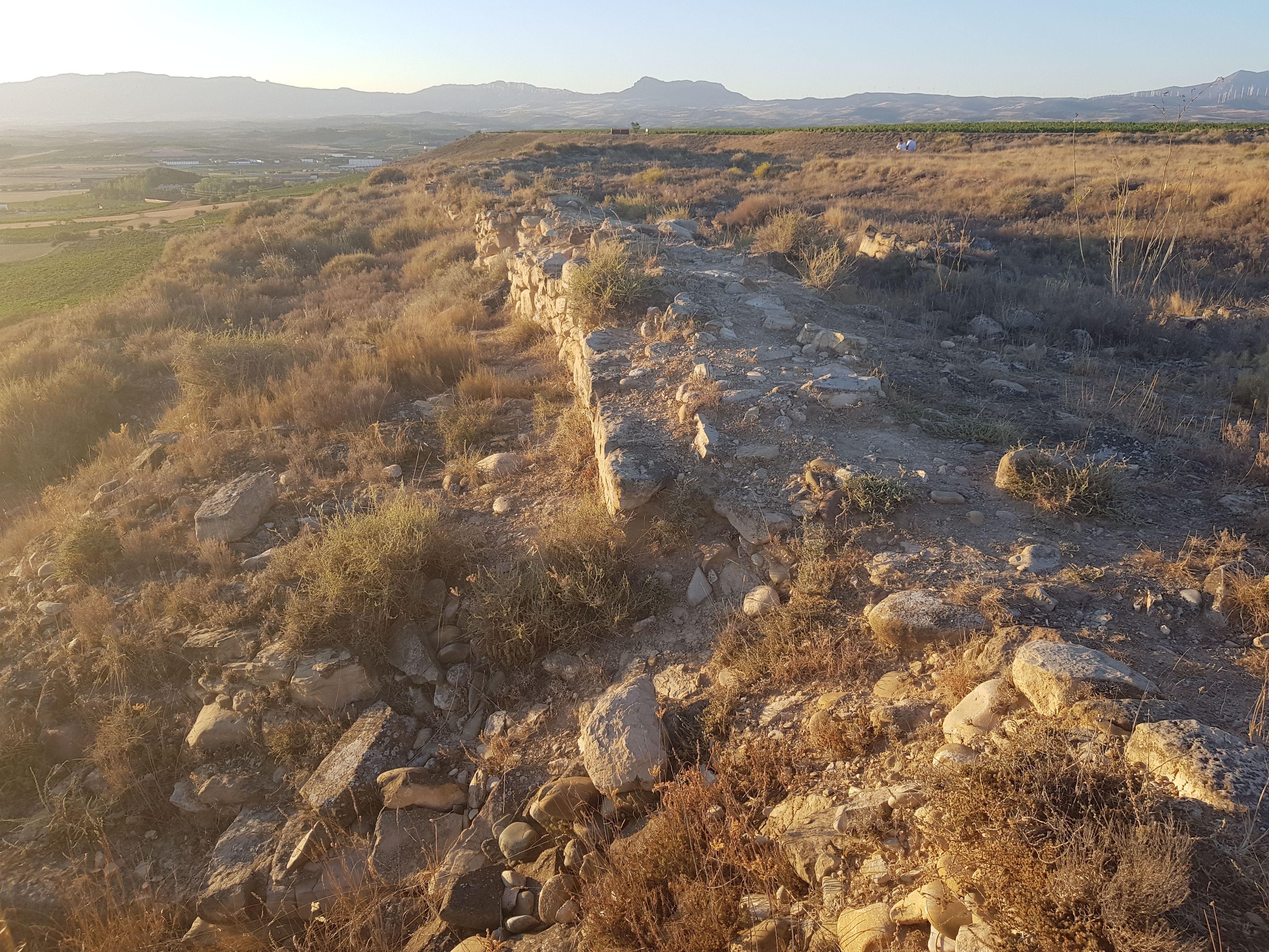 Ruins found on top of Monte Cantabria in Logroño, La Rioja, Spain.